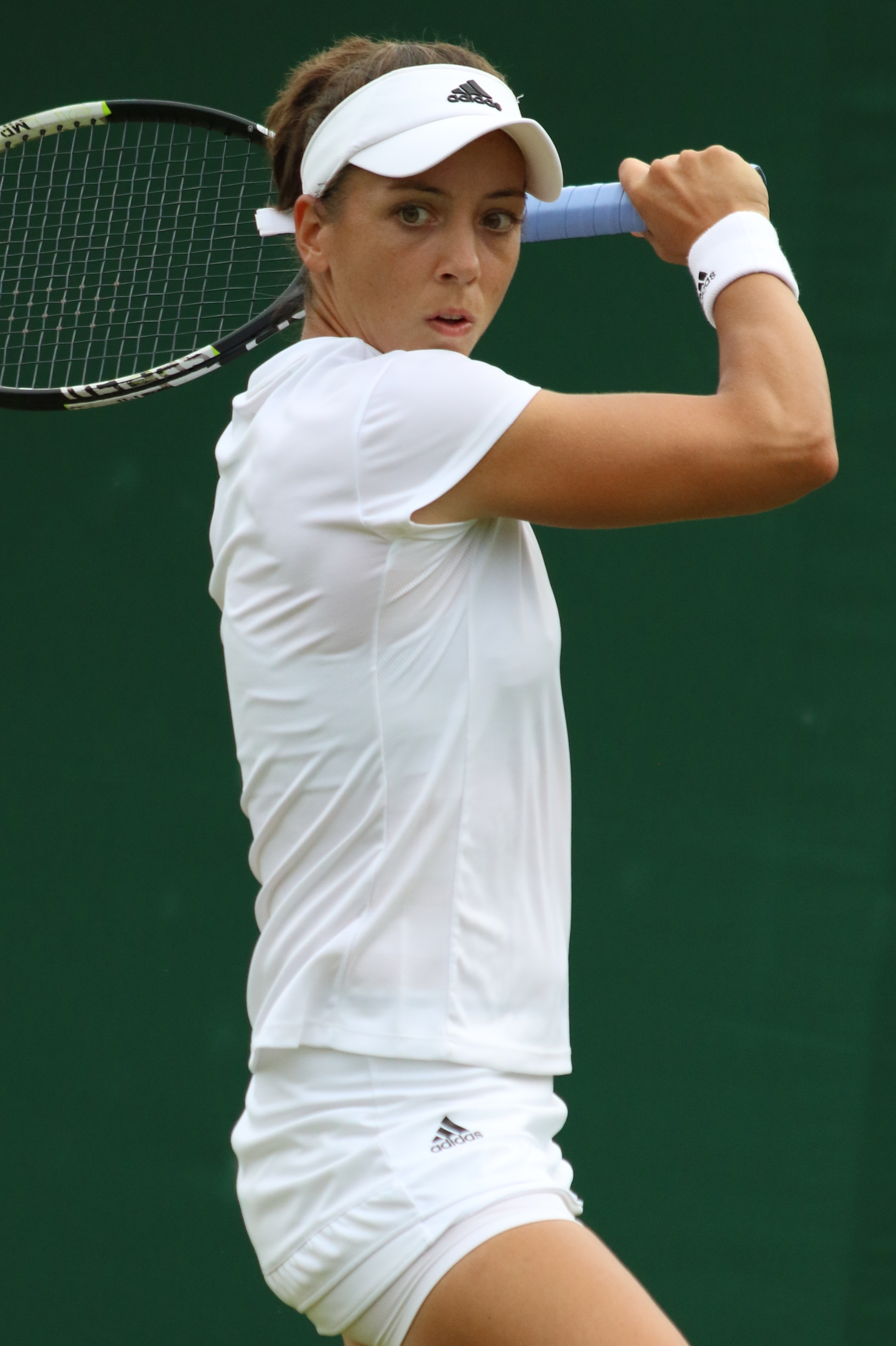 2019 Wimbledon Qualifying Tournament.